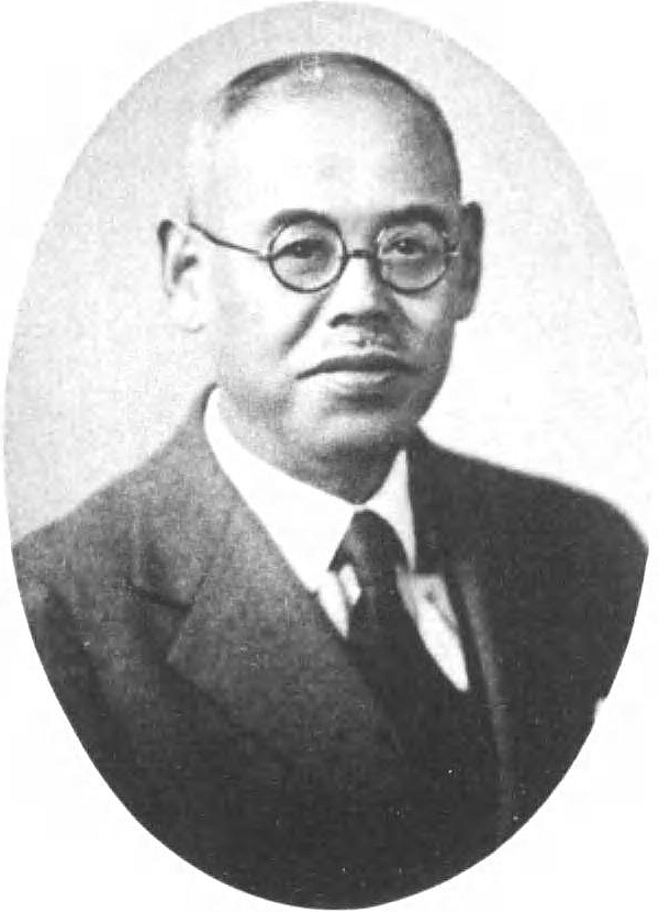 Murakami Koji